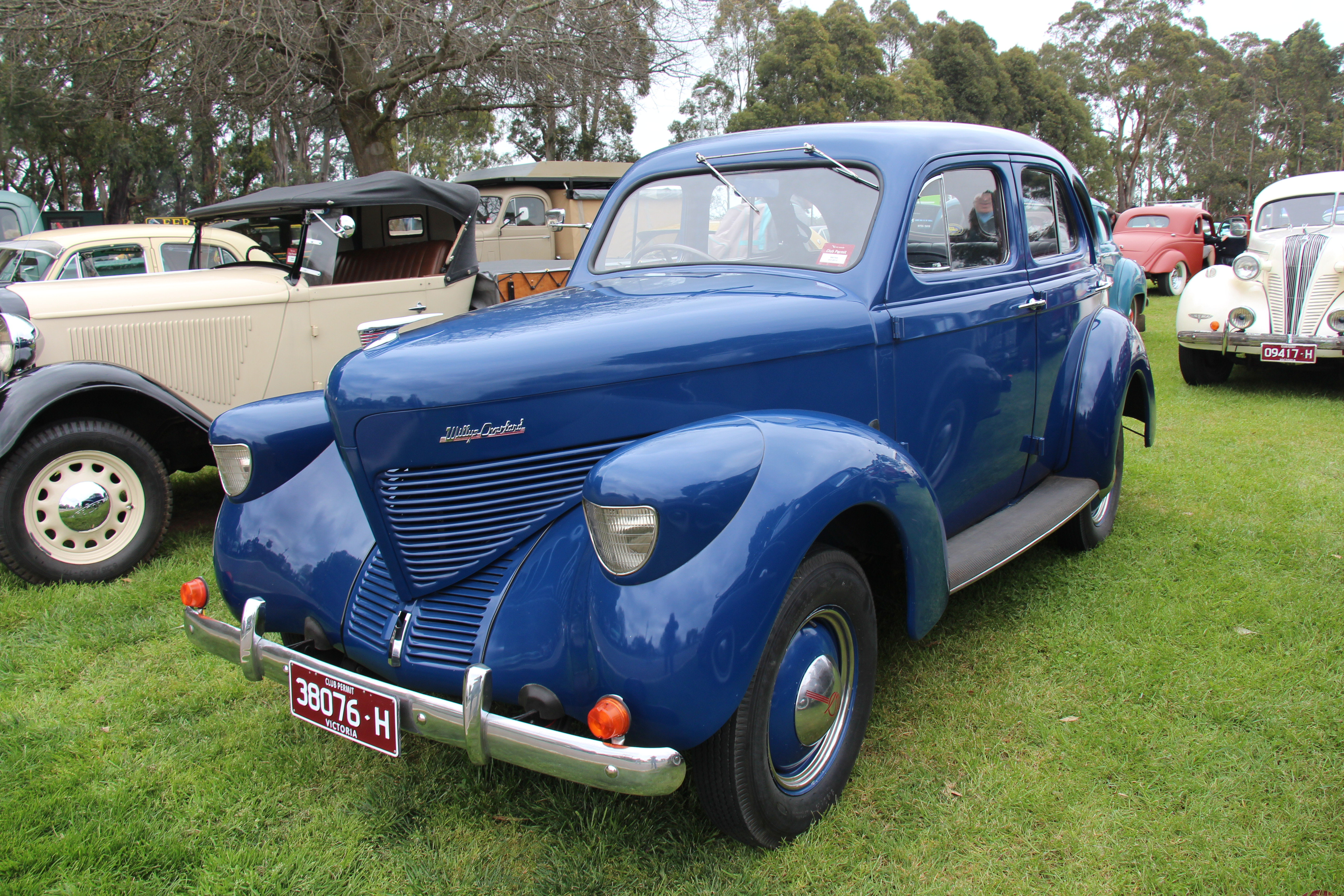 Production of the Willys-Knight ended in 1933. 2 new models were introduced in 1934; the 4 cyl Willys 77 and the 6 cyl Willys 99, but the firm was on the verge of bankruptcy, so only the 77 went into production. Those headlights are unique to 1939. This is an Australian bodied Willys, it differs from the American model in having an additional window behind the rear door In Australia, Willys chassis were imported prior to the First World War and throughout the 1920s and 1930s. General Motors local subsidiary, Holden produced a sedan, tourer and coupe utility bodies on the unfashionable 77 chassis in the late 1930s. 1473 sedans bodied by Holden in 1939